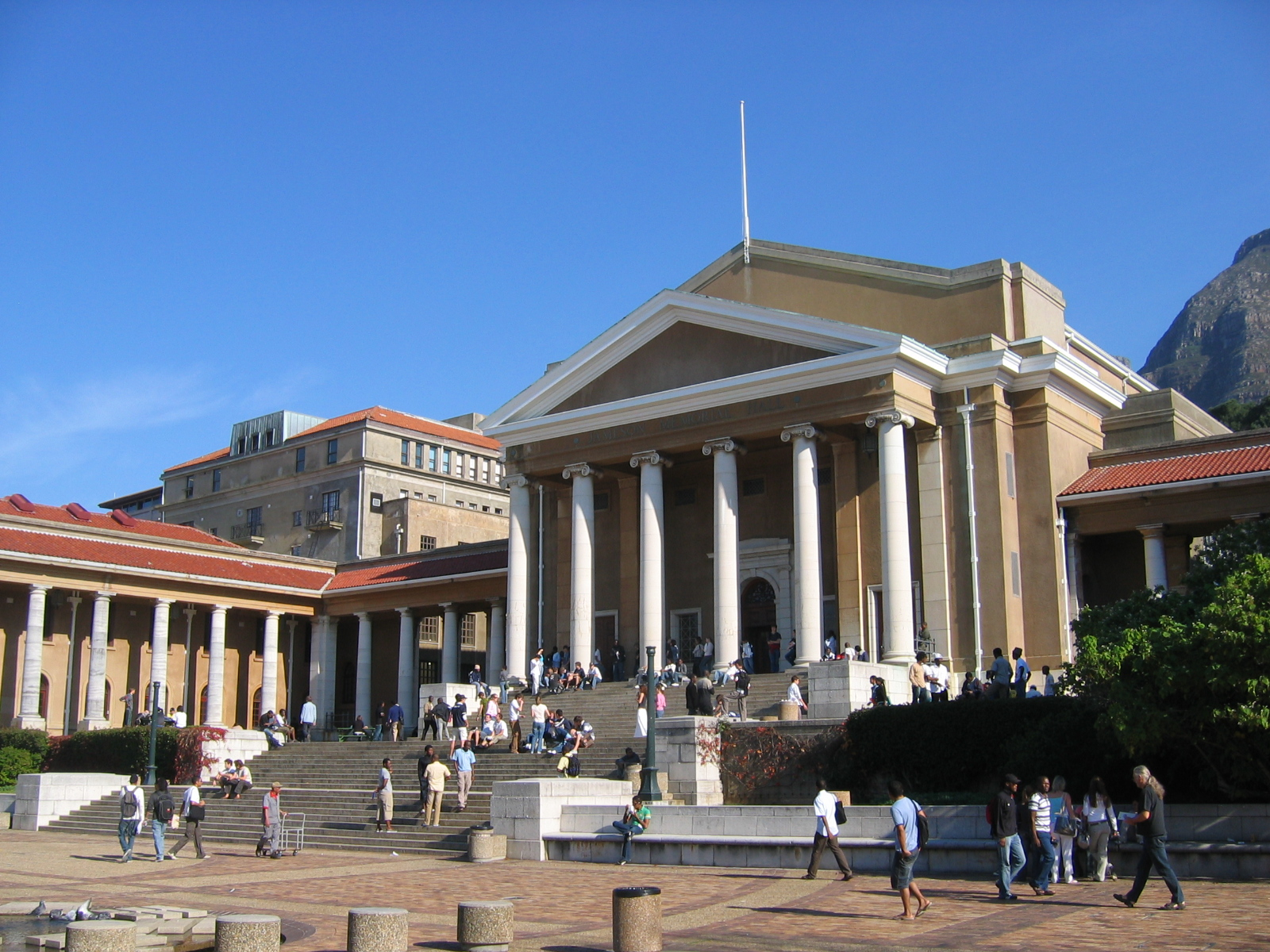 Jameson Hall, Jammie Steps and Jammie Plaza at the University of Cape Town.